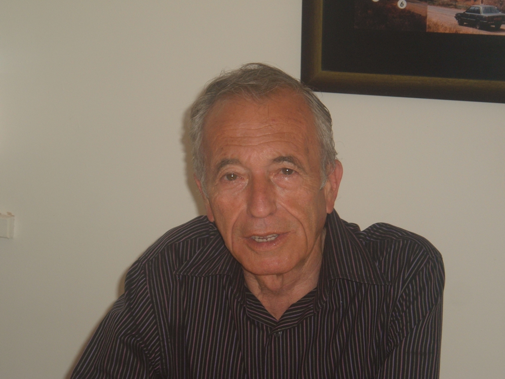 Israeli minister Gidon Ezra